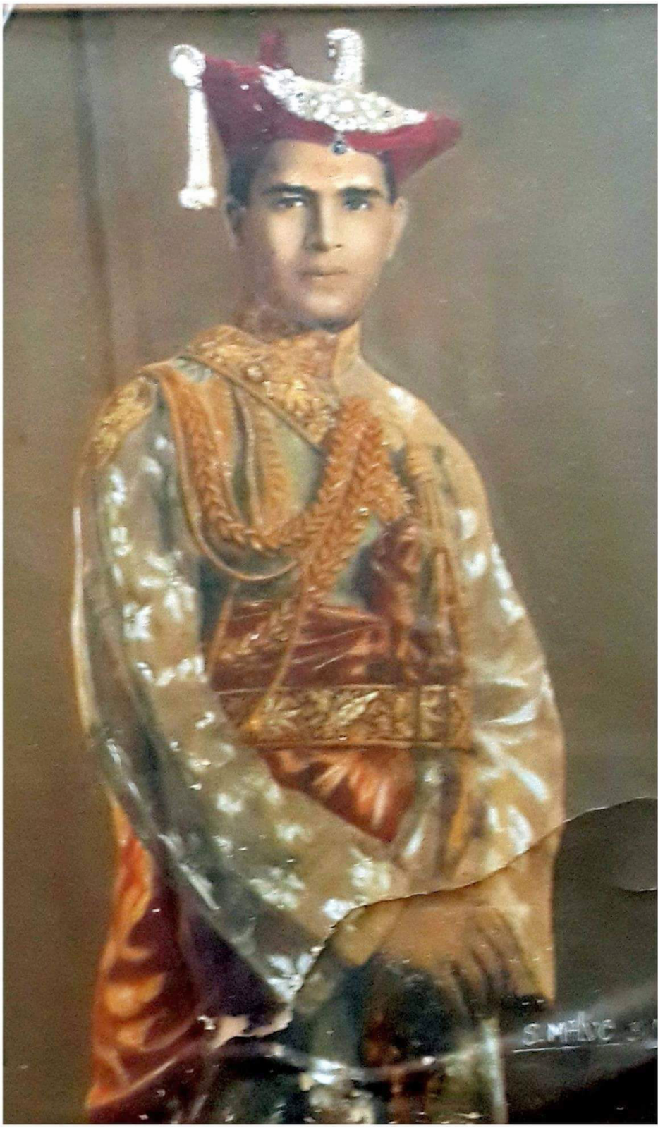 जव्हार रियासत